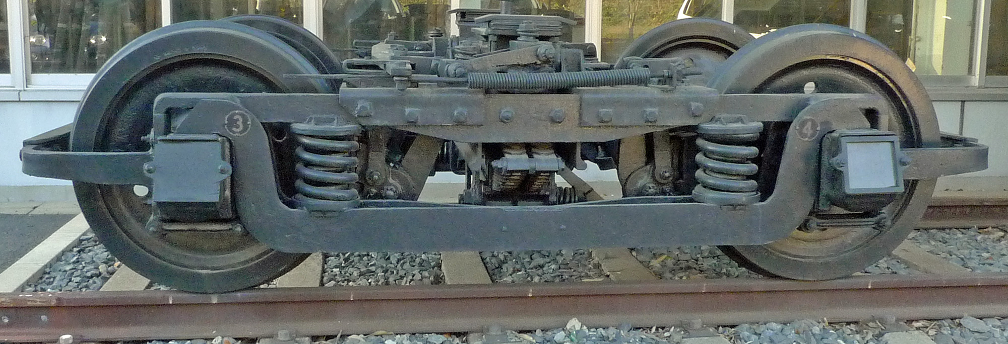 Keisei chi 5 series Brill 27MCB-2 Truck.